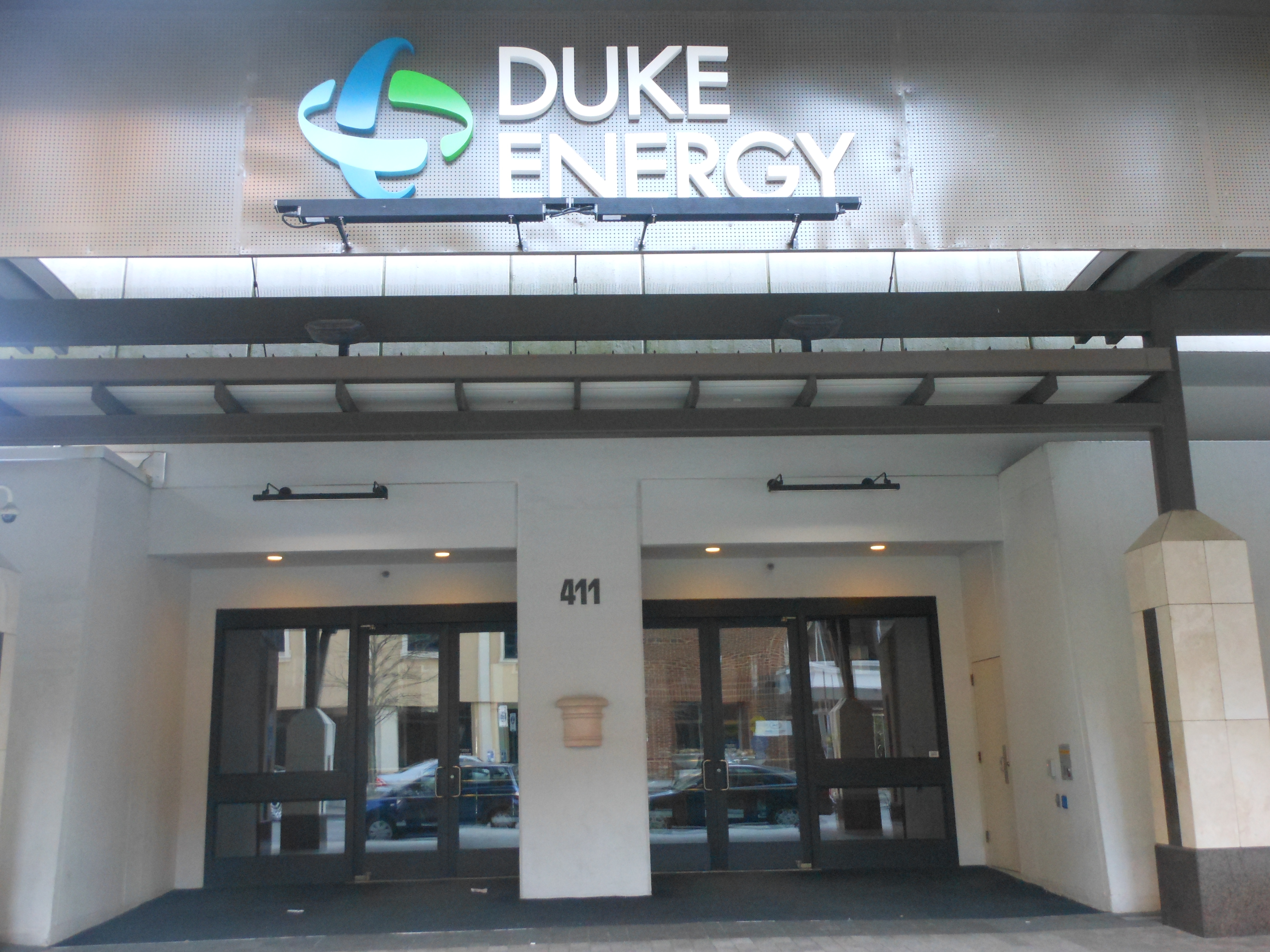 Duke Energy Office in Raleigh, NC